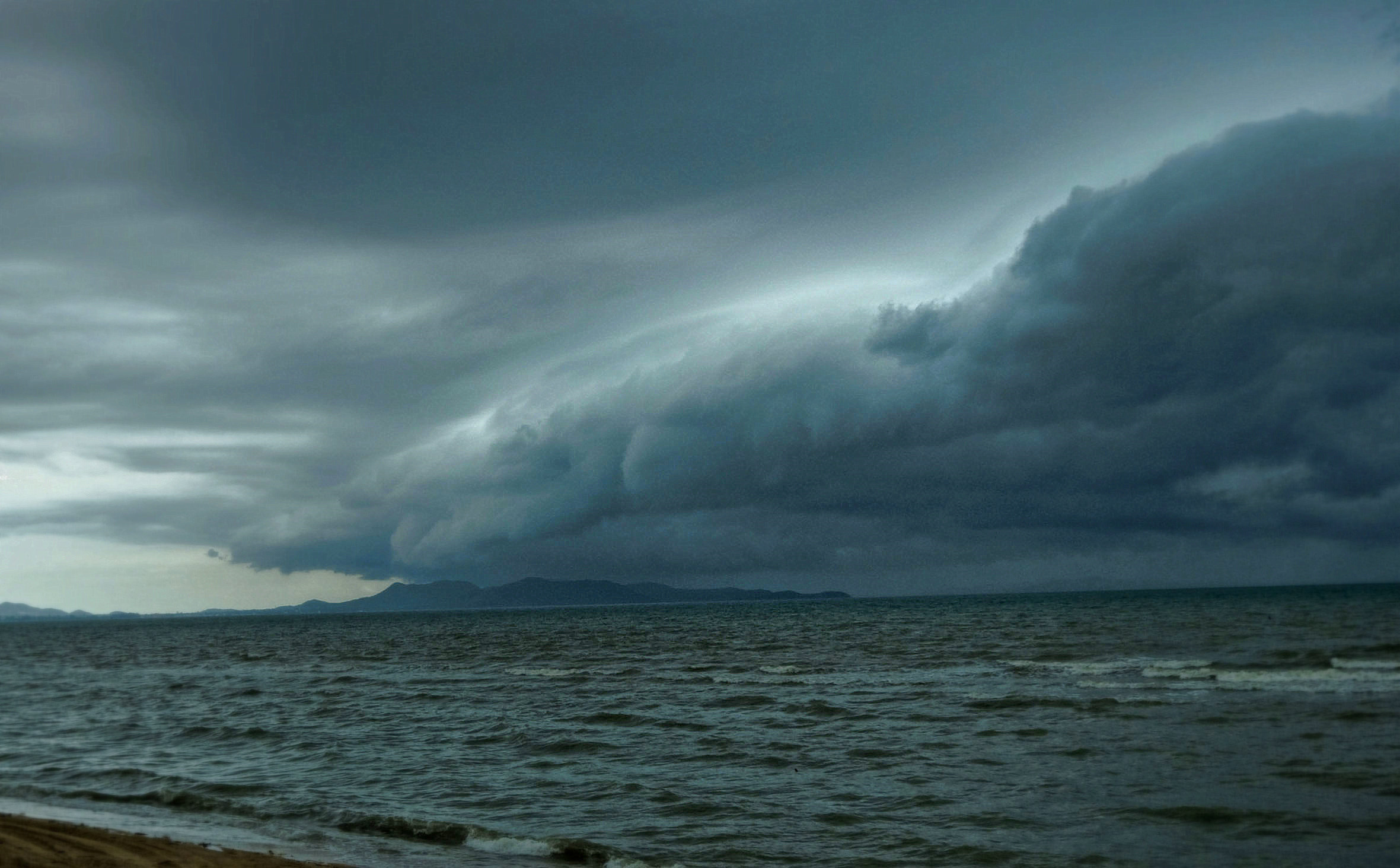 Storm at Pattaya Beach, Thailand.